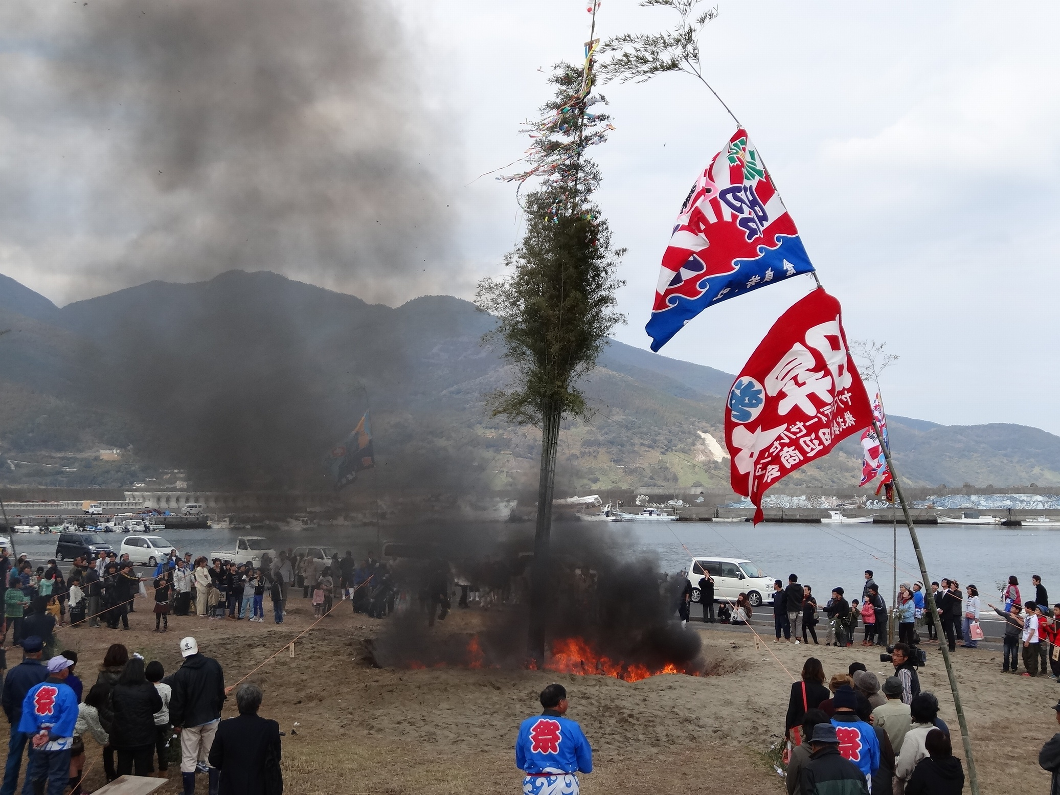 Doyadoya-saa (Uchinoura Area, Kimotsuki Town, Kagoshima, Japan)